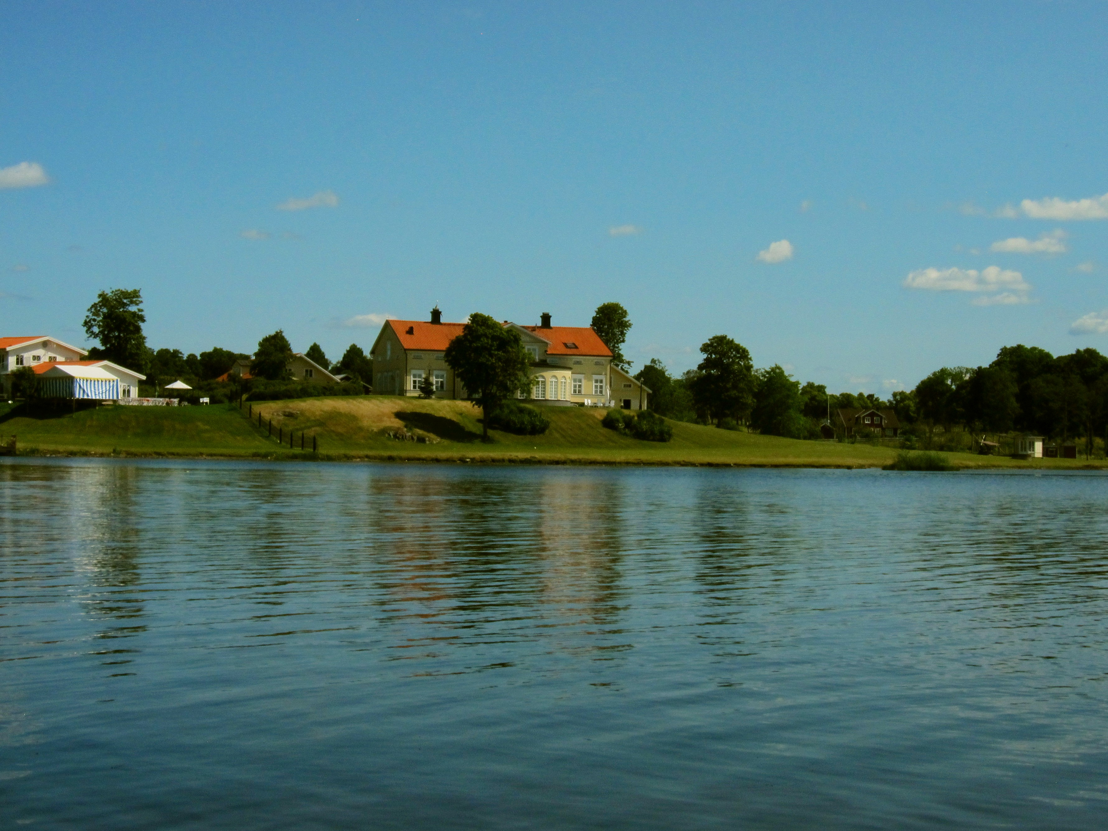 Rogbergasjön and the mansion of RIddersberg outside of Tenhult